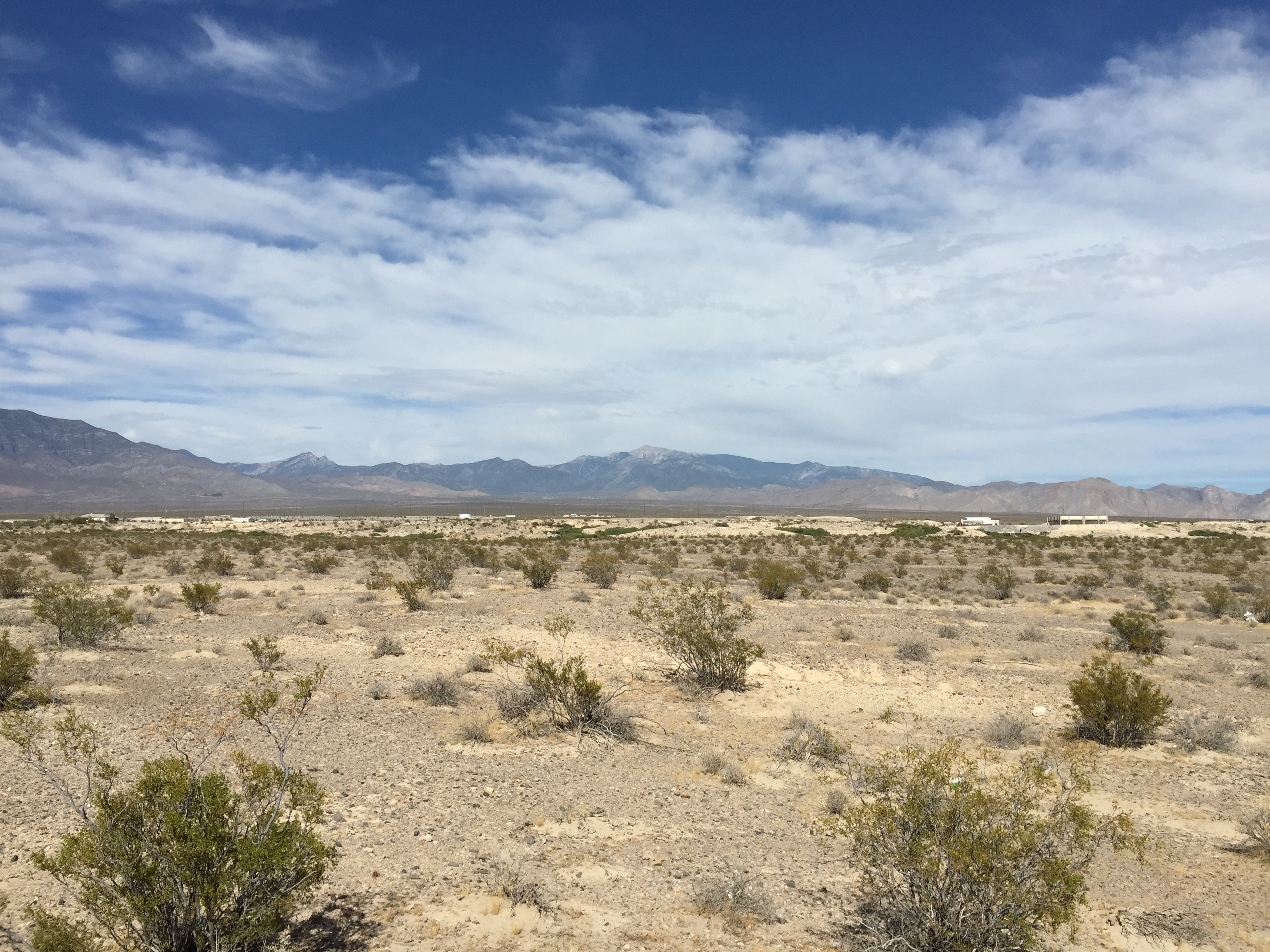 View of the Spring Mountains and Mount Charleston, Nevada from Pahrump, Nevada